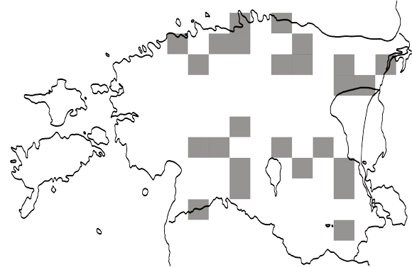 Leptogium saturninum. Distribution in Estonia 2011.